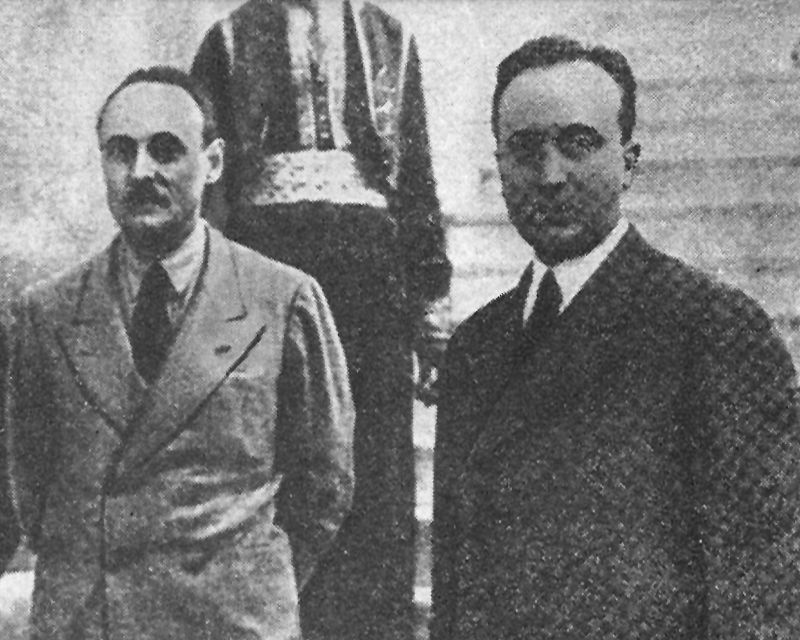 George-Valentin Bibescu and Gheorghe Bănciulescu, Cairo, 1935